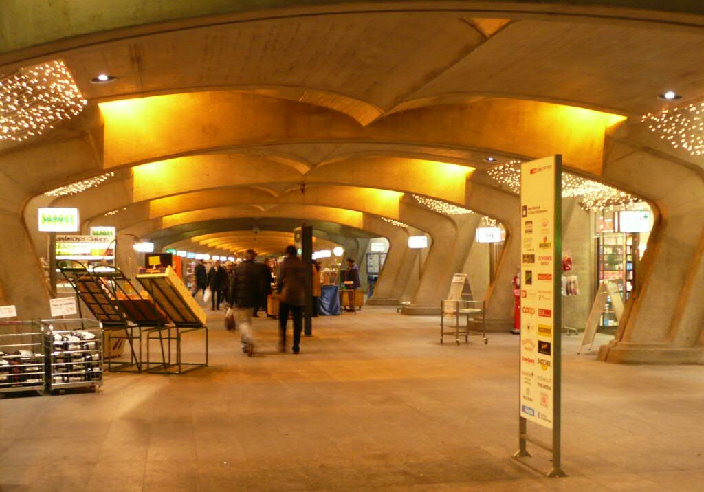 The underground shops at the railway stations are usually awful and uncomfortable places. Bahnhof Stadelhofen in Zürich is not. It is probably about the round shapes, warm lights, cosy little shops and frequent traffic, all together, I don't quite know.